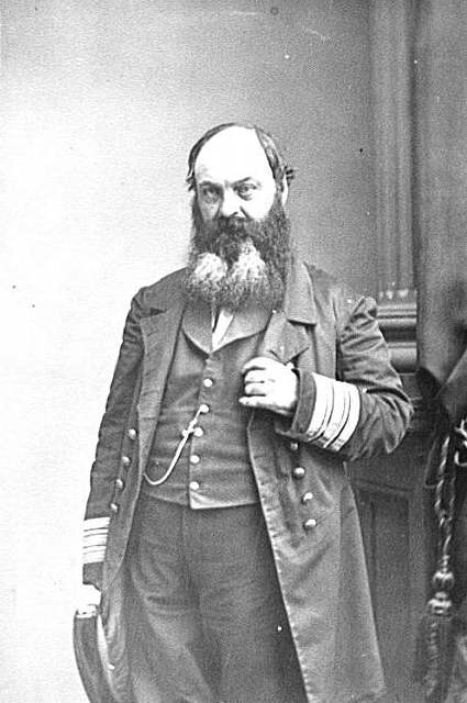 Title: Portrait of Commodore William D. Porter, officer of the Federal Navy Abstract: Selected Civil War photographs, 1861-1865 (Library of Congress) Physical description: 1 negative